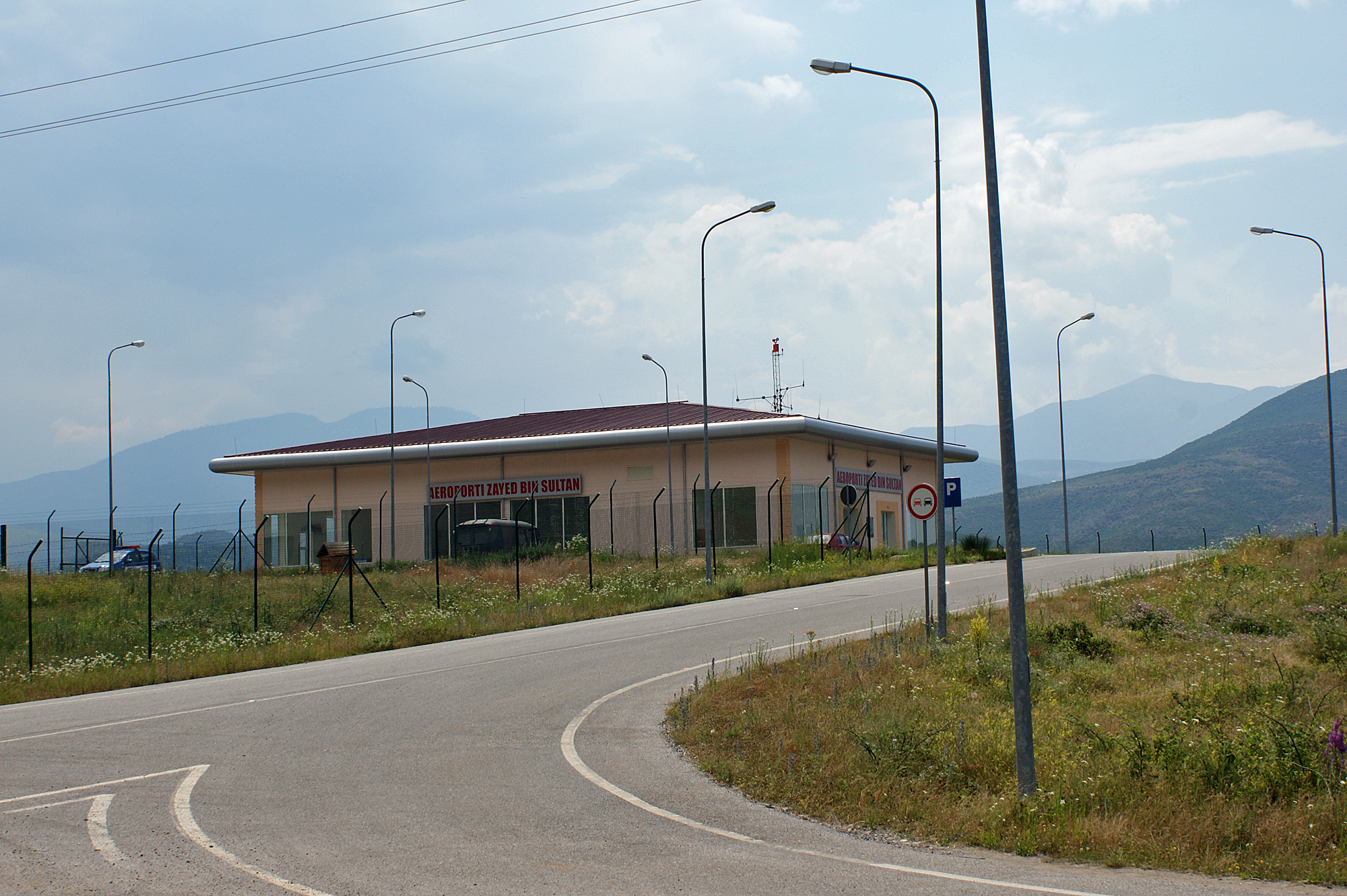 Terminal building of Kukës Airport, Albania